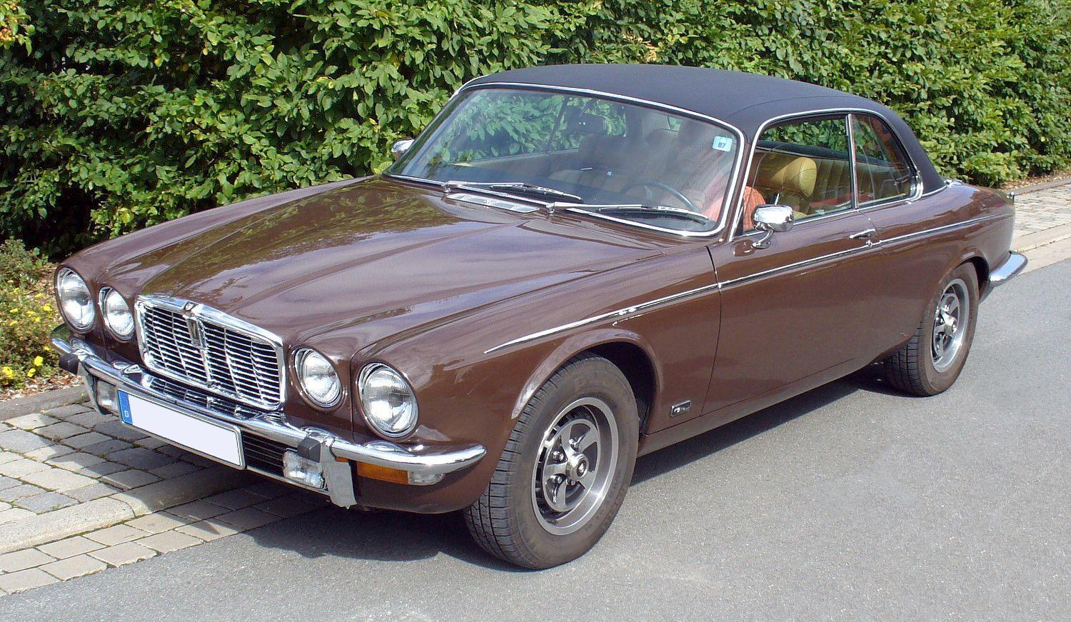 Jaguar XJ Coupé Mark I Series II 5.3 V12 CPlease note that this car is on foreign after-market wheels